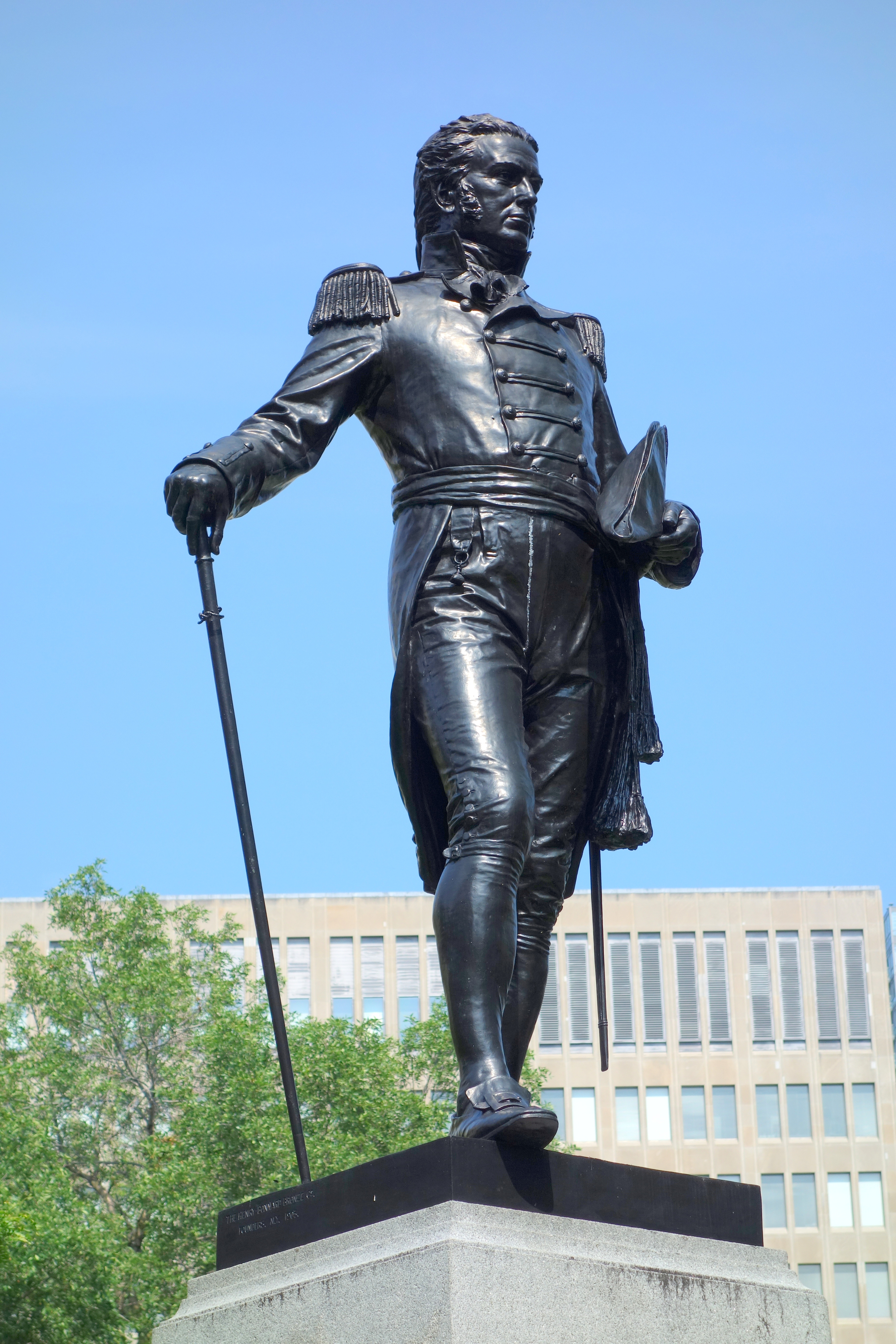 John Graves Simcoe Monument - Queen's Park, Toronto, Ontario, Canada. This artwork is in the public domain because the sculptor died more than 70 years ago.